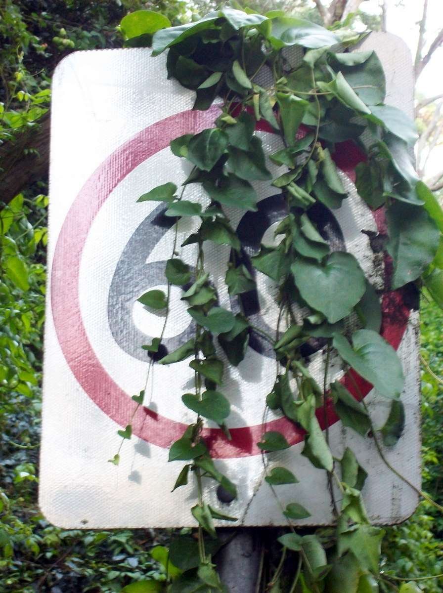 invasive Anredera cordifolia growing over a speed limit sign in Sydney. Australia (Lady Game Drive at Lindfield West)